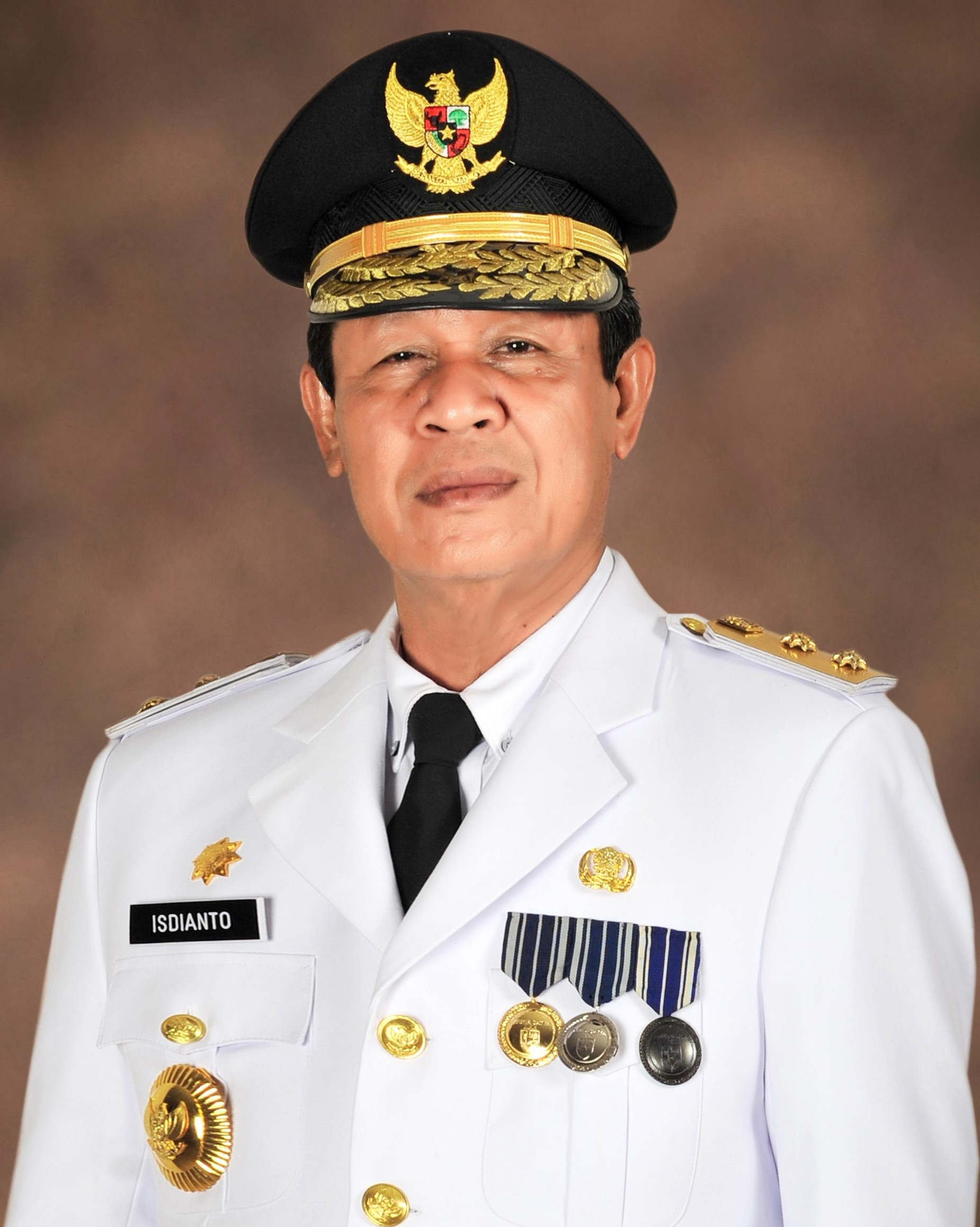 Isdianto as Vice Governor of Riau Islands